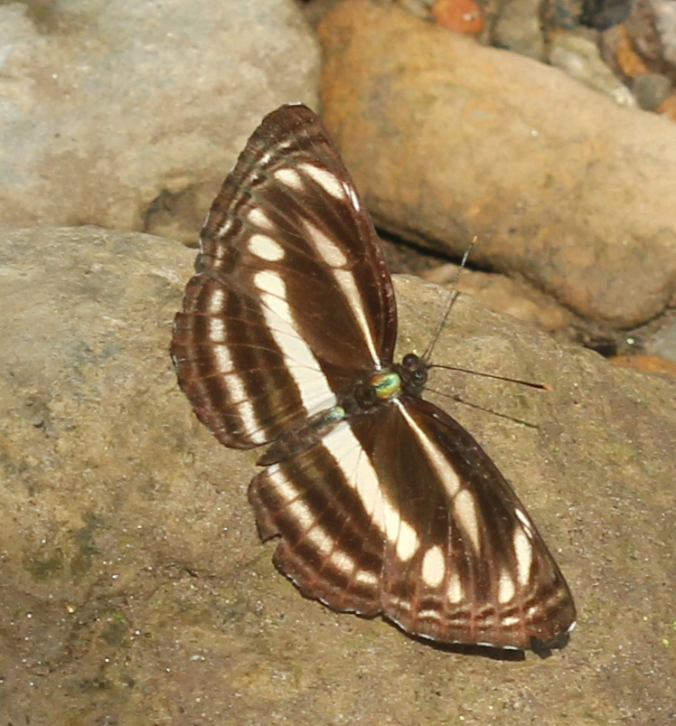 Neptis sankara. Shot at garo hills, Meghalaya